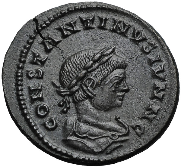 AE3 of Constantine II from Rasiel's Roman Coin Collection